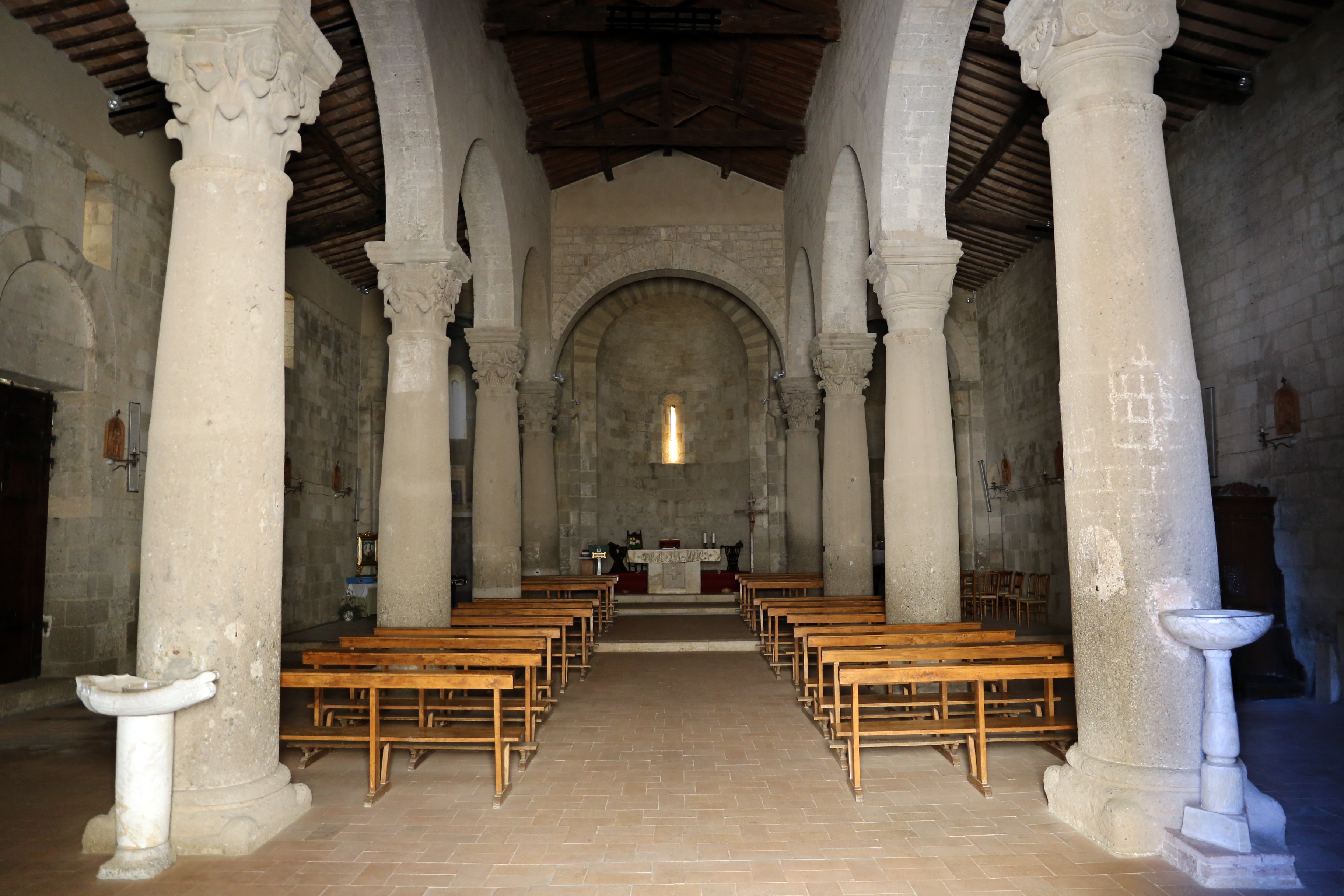 San Giovanni Battista (Mensano)